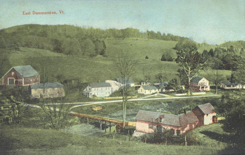 View of East Dummerston, Vermont